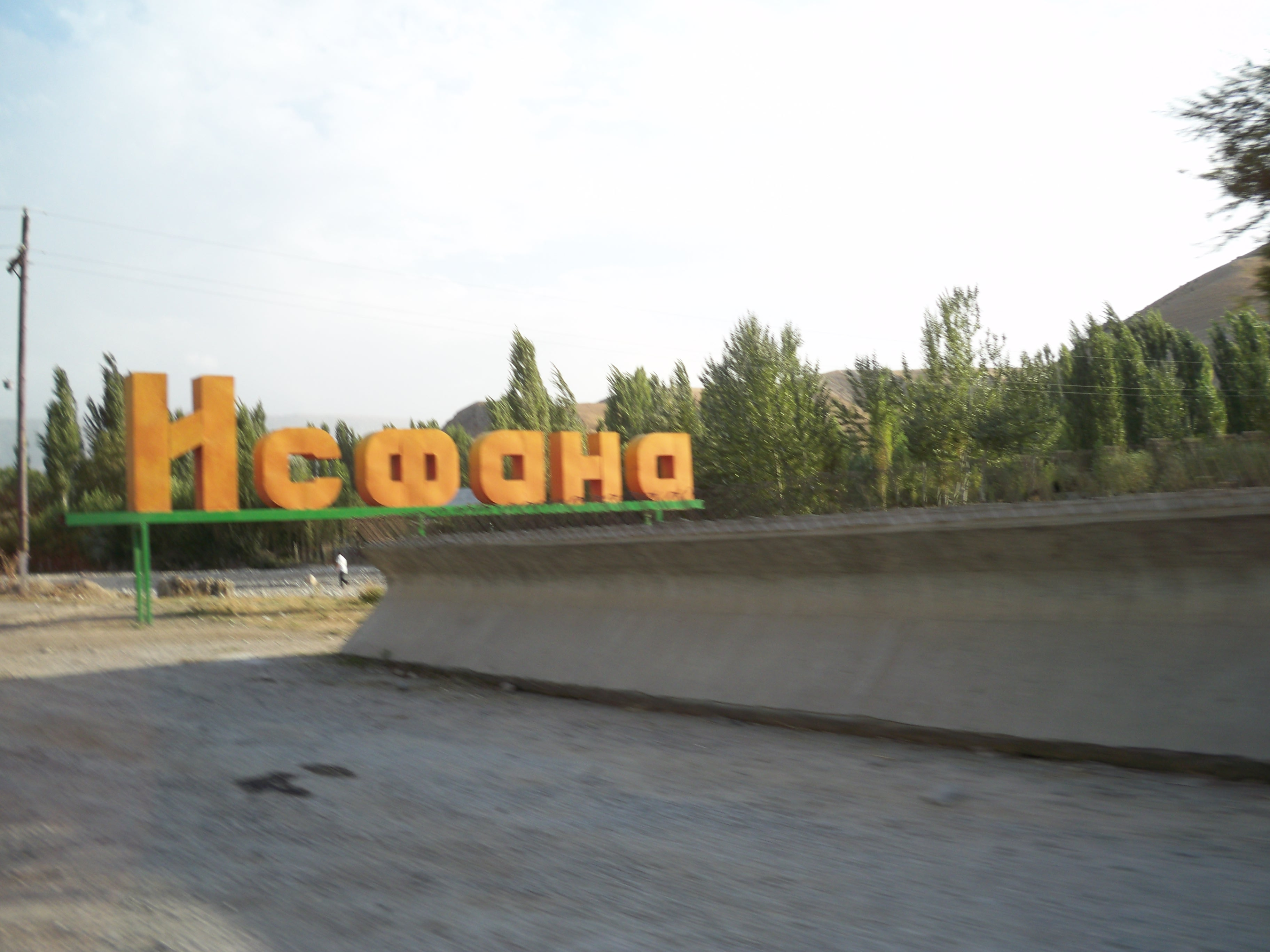 The Isfana sign in the northwestern corner of the town.